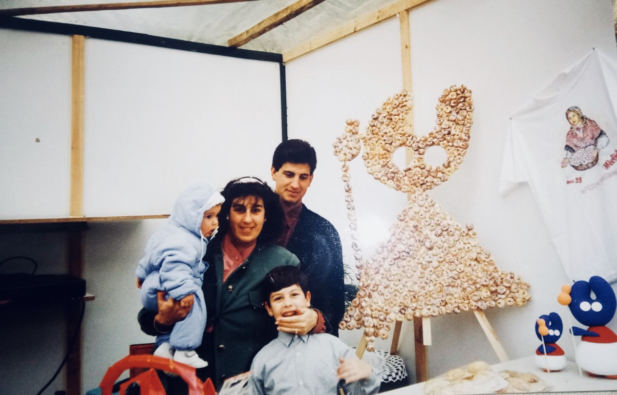 Neno posando co Pelegrín de Melindre. Posto de docería na Feira do Melindre de Melide.